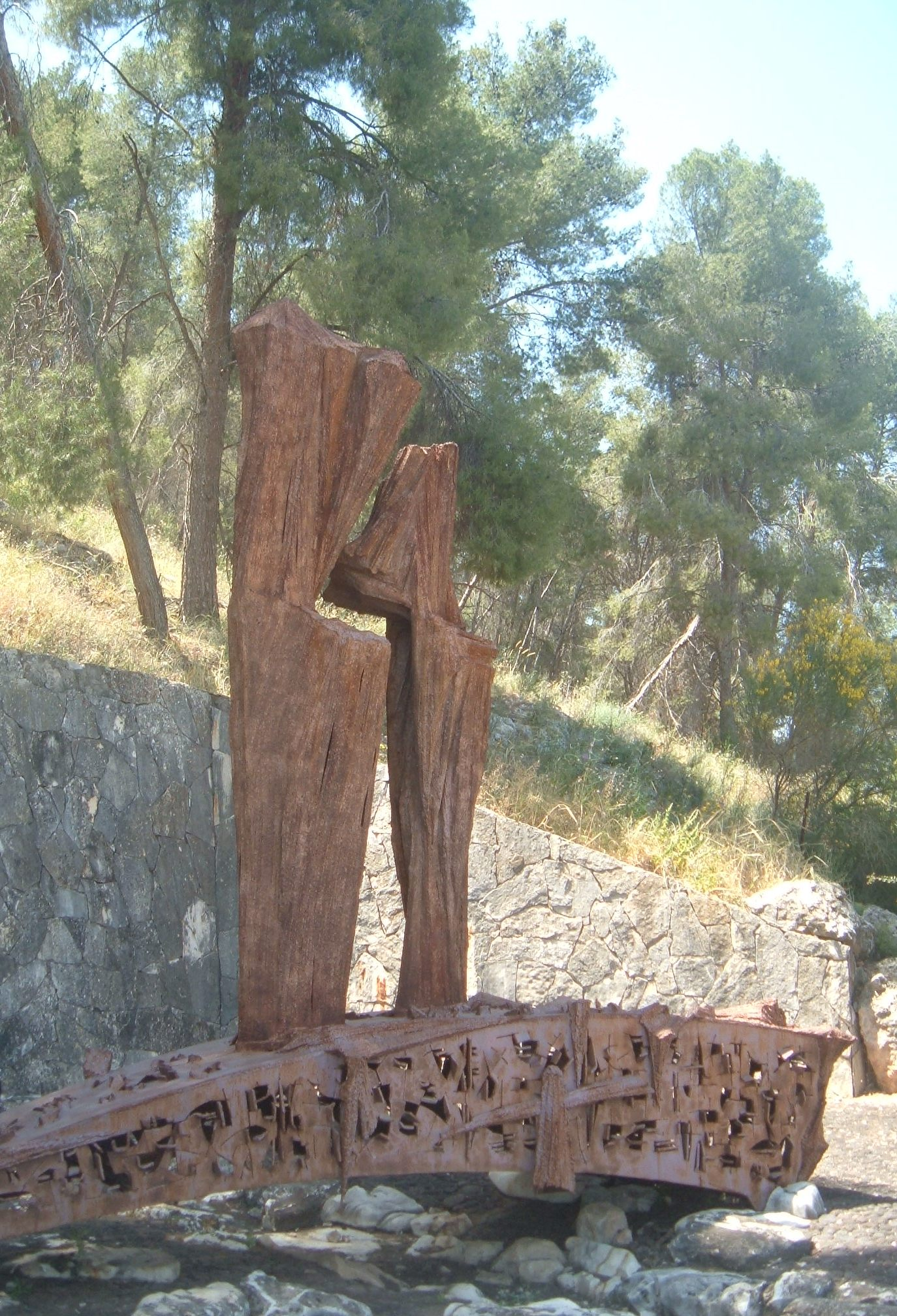 memorial for the IDF casualties of Emek Izreel by David Palombo יד לבני העמק שנפלו פיסל דוד פלומבו, מצוי בשטח הגן הלאומי מעיין חרוד